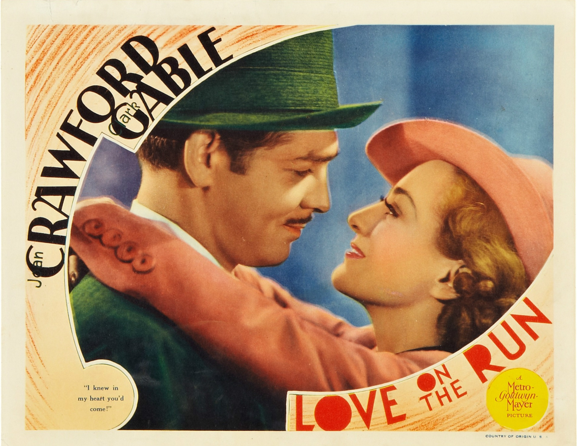 Lobby card for the 1936 film Love on the Run with Joan Crawford and Clark Gable.